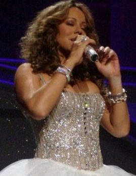 Mariah Carey performing live in Las Vegas in September 2009